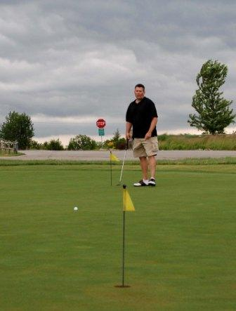 Golf at Sycamore Ridge in Spring Hill, Kansas